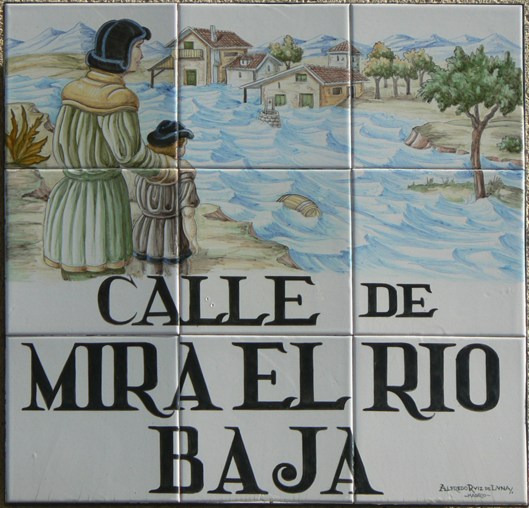 Sign of Calle de Mira el Rio Baja (street, Centro district) in Madrid (Spain).